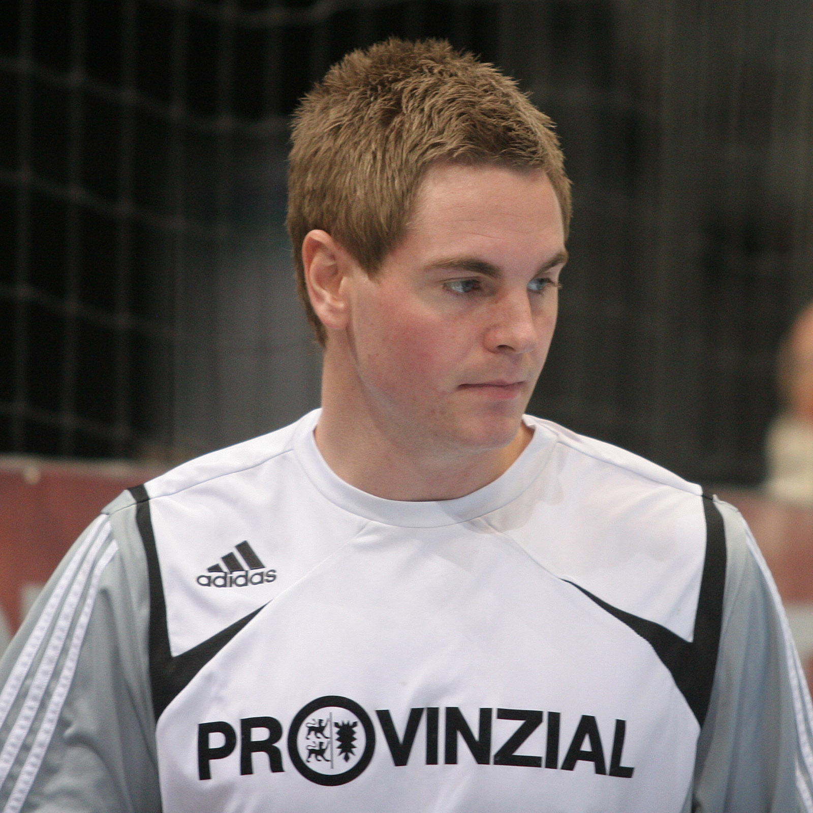 Andrea Palicka, Swedish goalkeeper from THW Kiel